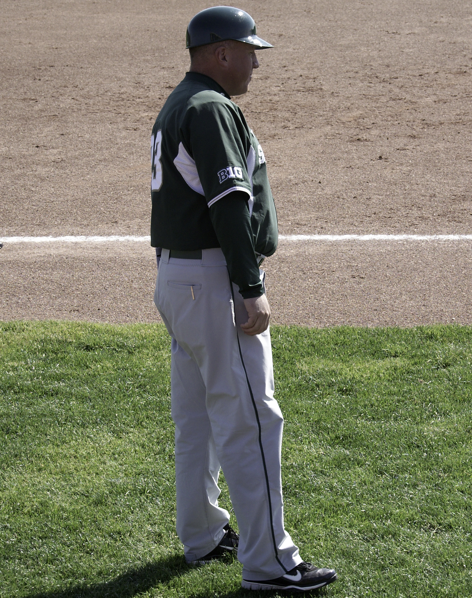 Jake Boss coaches third base and manages the Michigan State Spartans during a 2012 game at Theunissen Stadium in Mount Pleasant, Michigan.